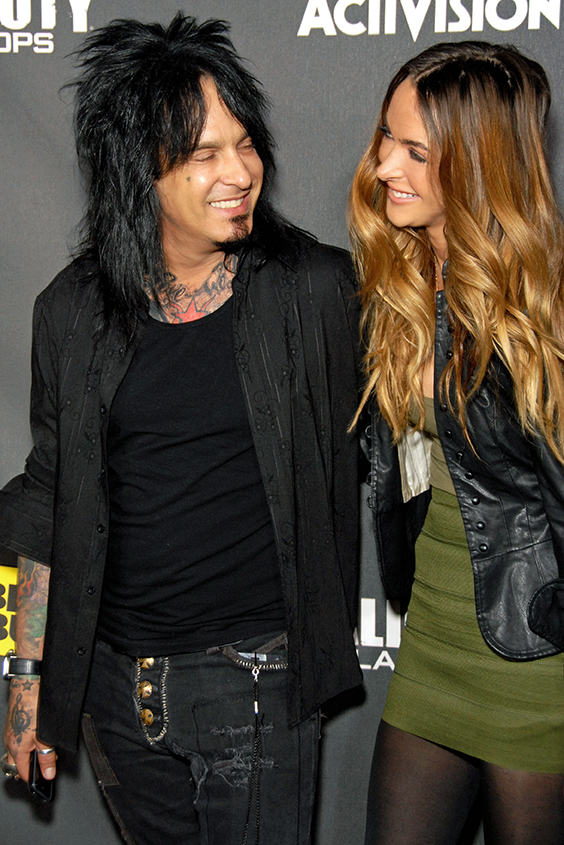 Nikki Sixx and Courtney Bingham at the 'Call Of Duty: Black Ops' Launch Party on November 4, 2010 - Photo by Glenn Francis of